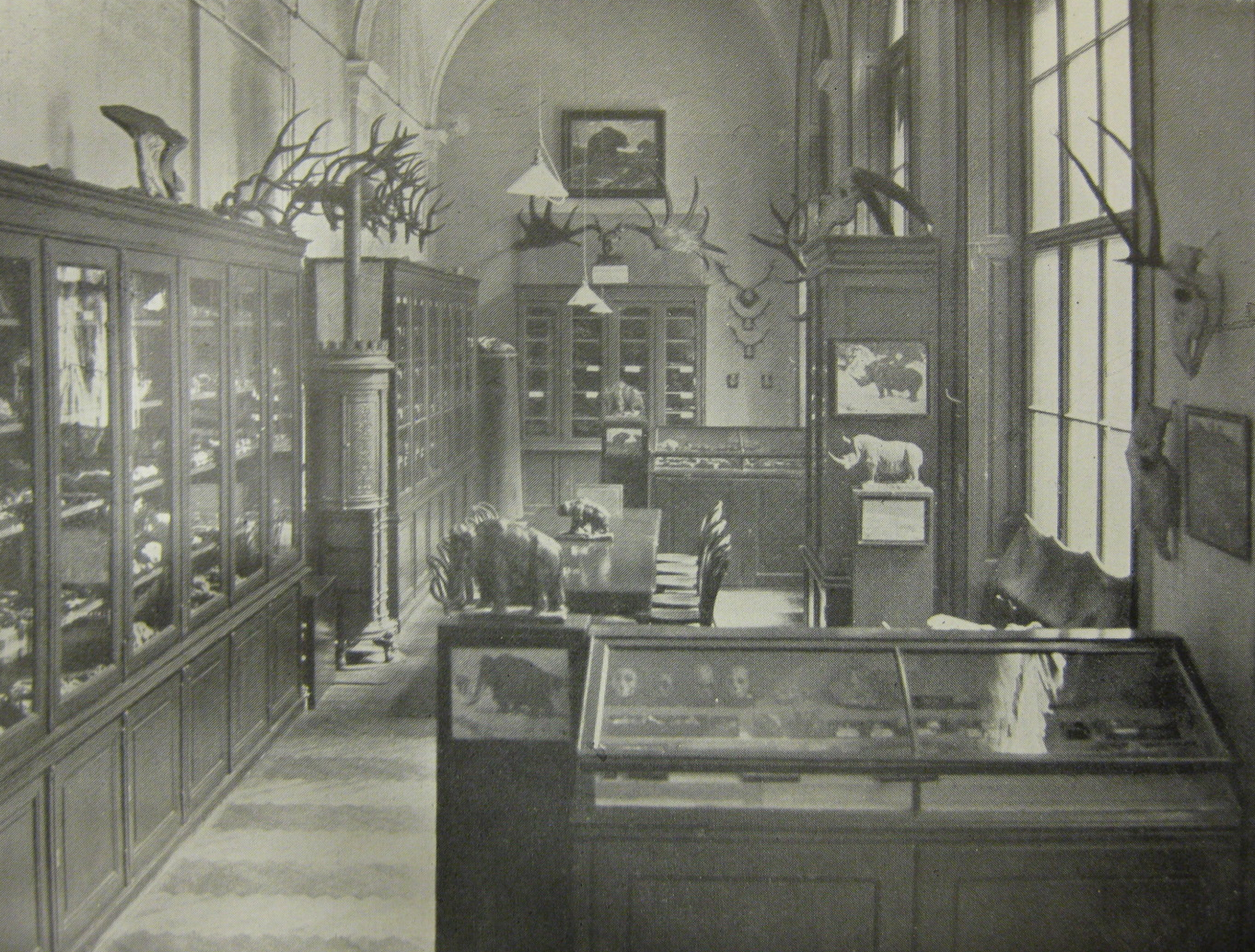 seminar room for paleontology at the University of Vienna 1928